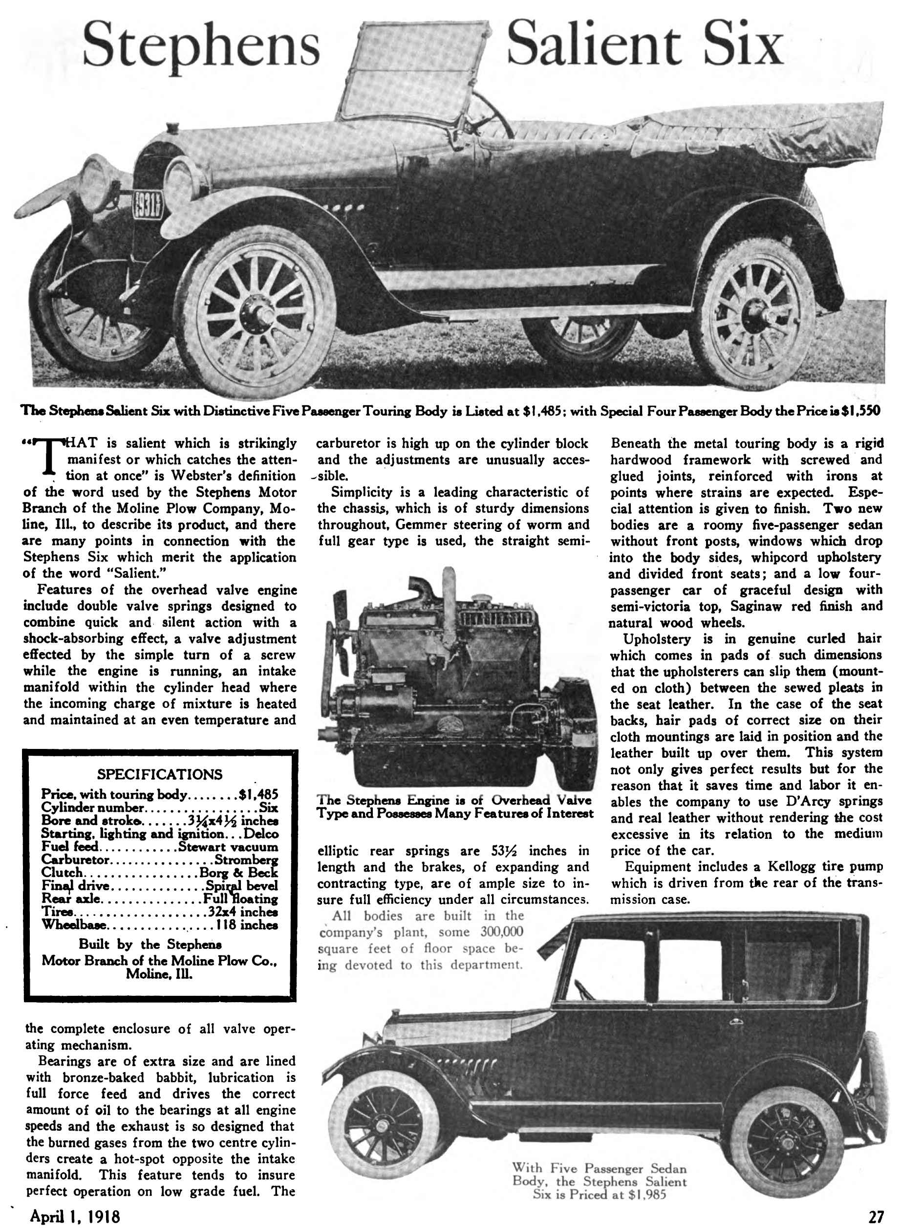 An overview of the Stephens Salient Six automobile, built by the Stephens division of the Moline Plow Company, in the journal Horseless Age, volume 43, number 7, April 1, 1918, page 27.